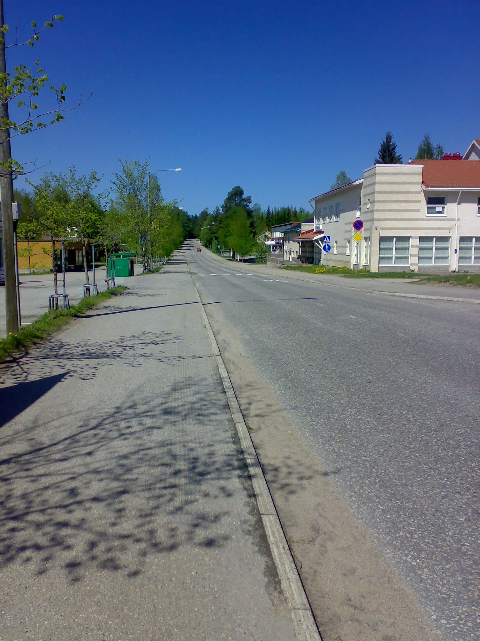 Highway 87 (Savontie road) in Rautavaara, Finland